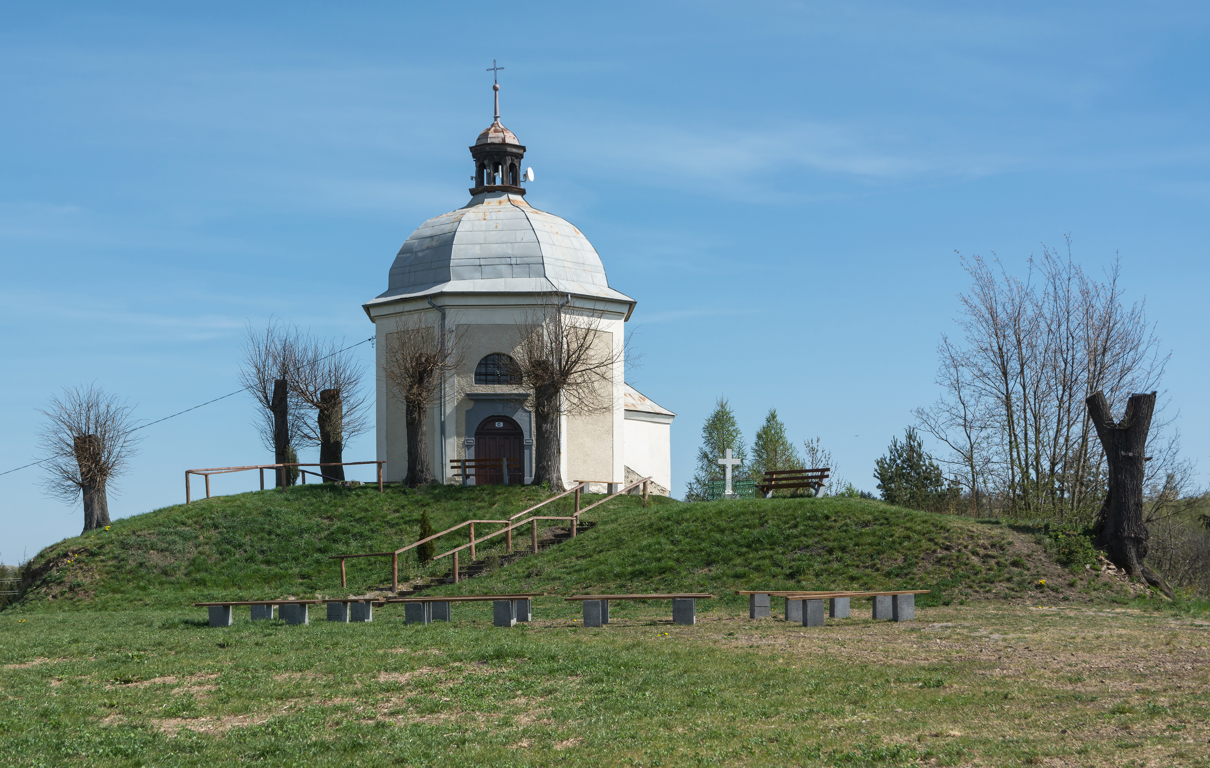 Holy Cross chapel in Boguszyn